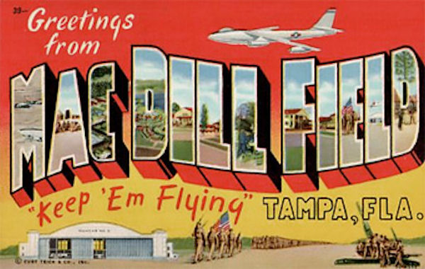 MacDill Field Postcard